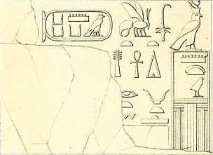 Drawing of a rock inscription of Menkauhor Kaiu from the Wadi Maghara, made by Karl Richard Lepsius